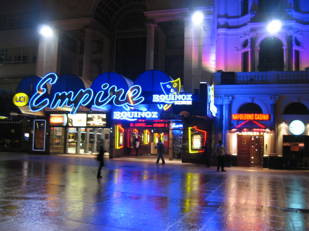 Empire in Leicester Square London a rainy night in May 2003